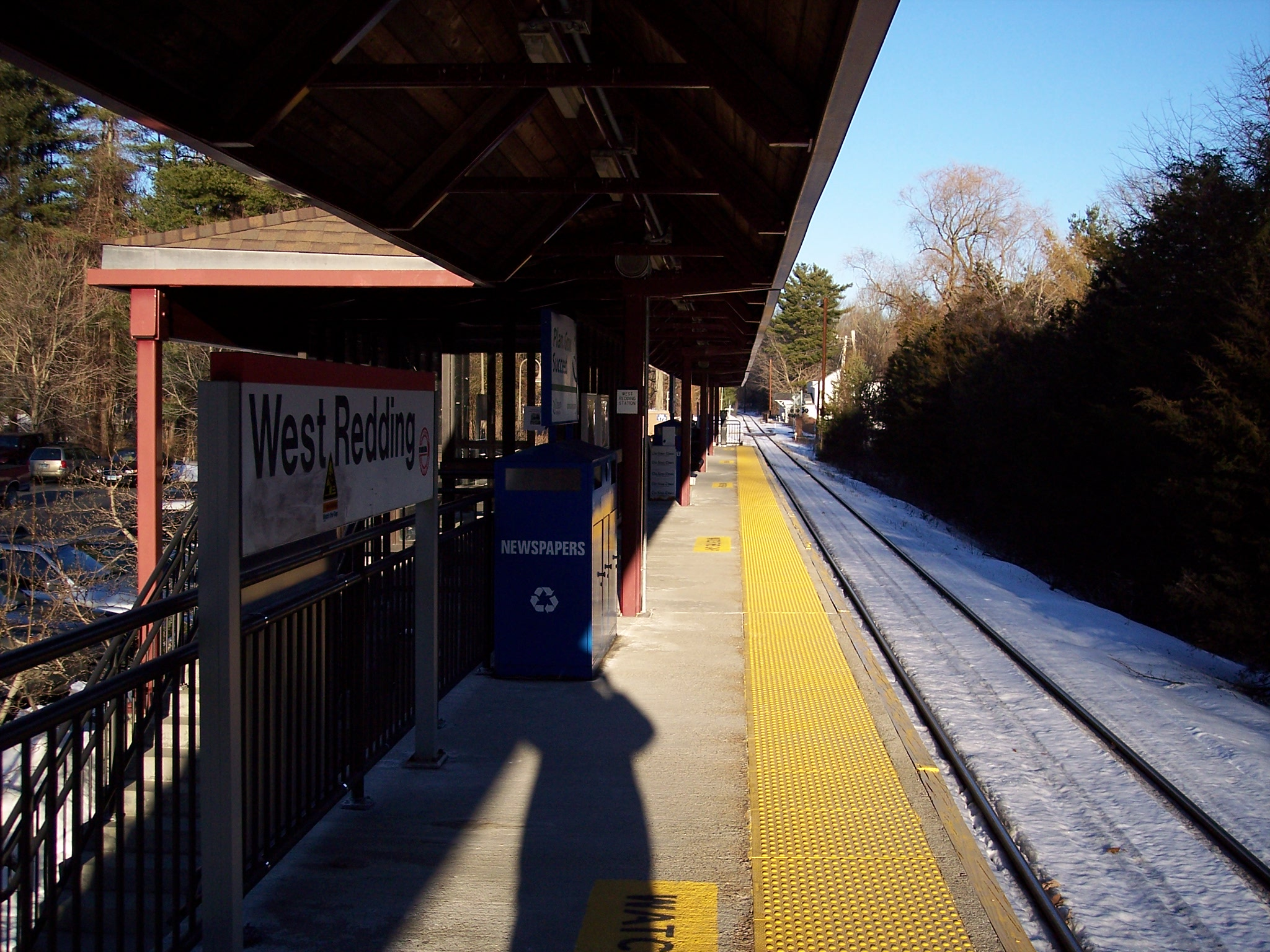 Station platform in Redding CT